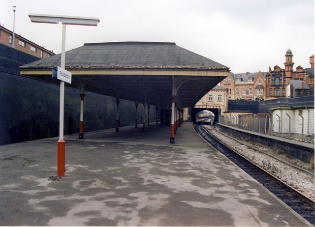 Pendleton railway station Original description: Pendleton station Pendleton once had two stations, about 100 yards apart on the same main road. Originally Pendleton Broad Street, this was the survivor in the 1980s, with services to Blackburn, Wigan and Manchester. There was a second, identical double-sided platform on the right at one time. Pendleton was so close to Salford Crescent that it closed shortly after that station was opened.